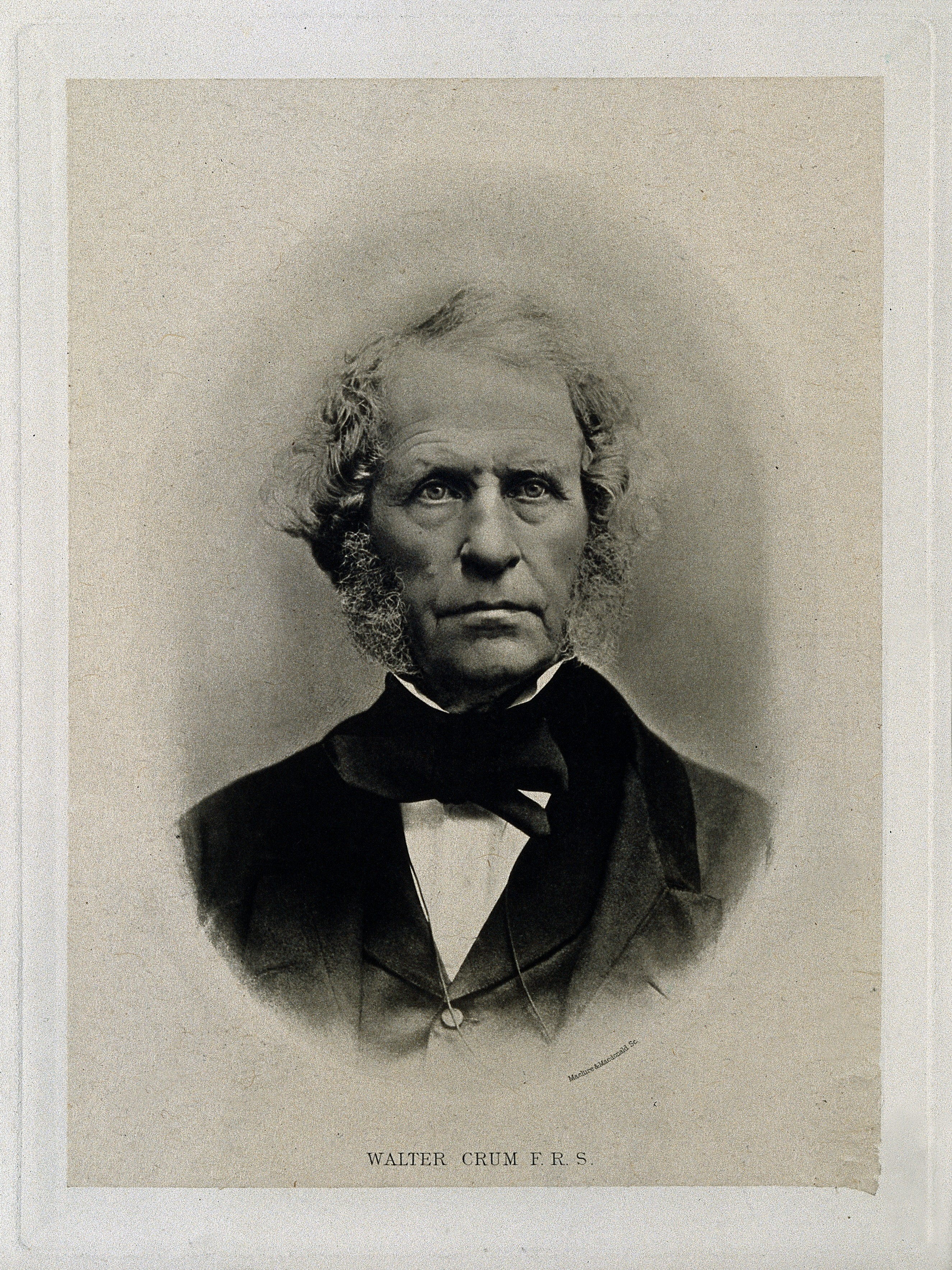 Walter Crum. Photogravure by Maclure & Macdonald. Iconographic Collections Keywords: portrait prints; crum, walter, 1796-1867; Walter Crum; photogravures